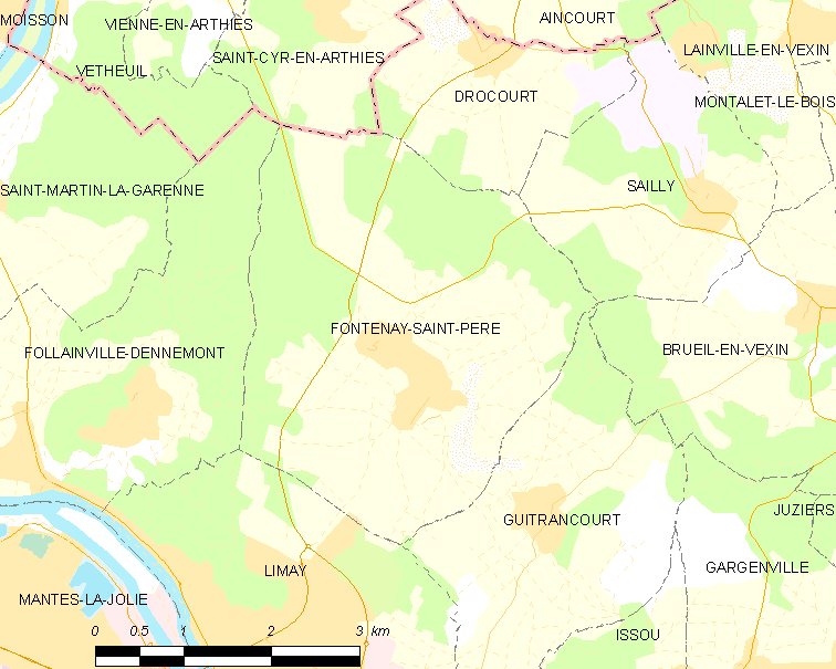 Map of French municipality Fontenay-Saint-Père